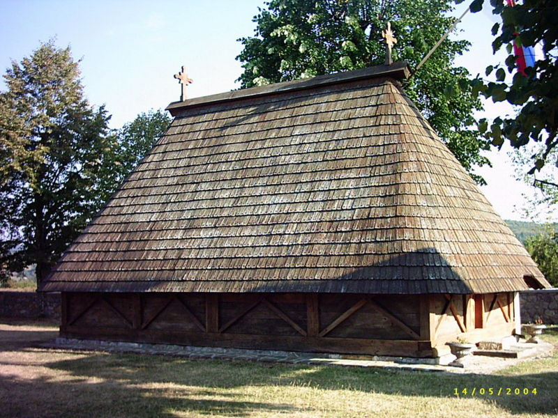 Wooden church in Javorani